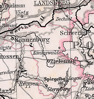 Detail from a map of Brandenburg.